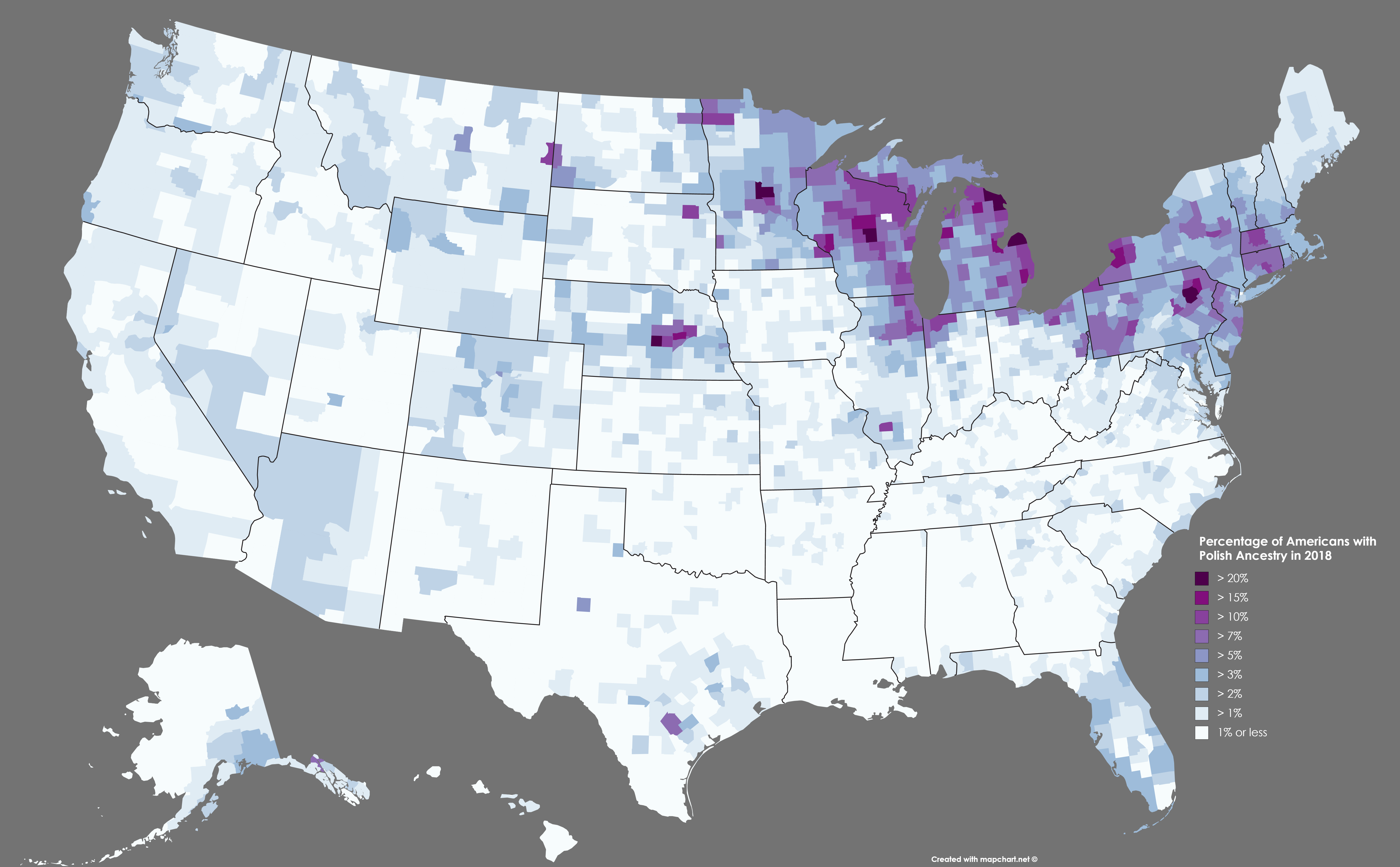 This is a map showing states by the percentage of Americans they have claiming Polish Ancestry in 2018 according to the ACS's 5-year Estimates.